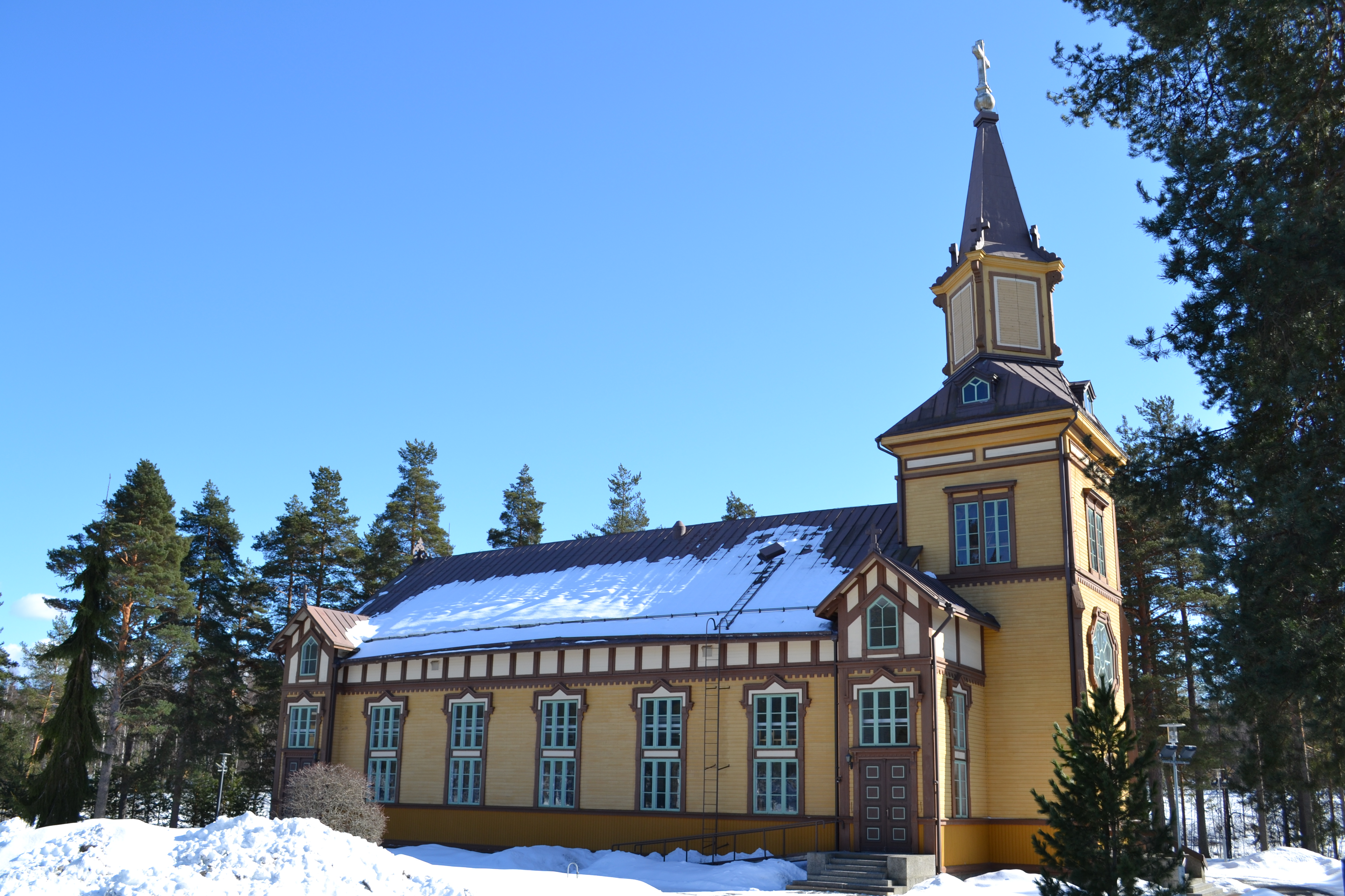 Vilppula Church